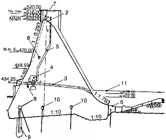 Cross section of Izvorul Muntelui Dam